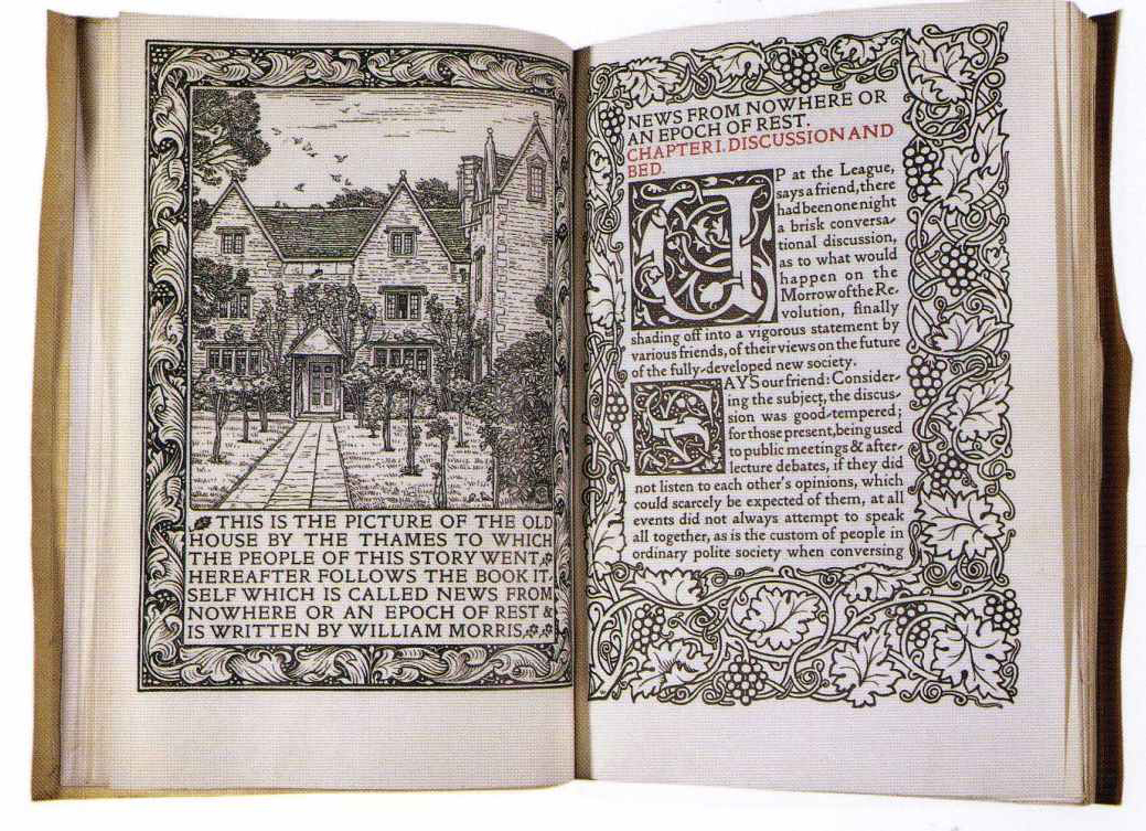 Two pages from News From Nowhere, by the English novelist and socialist pioneer William Morris